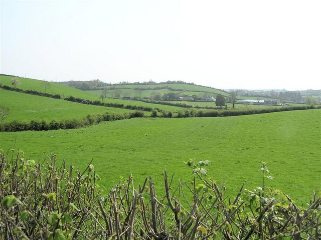 Shannahergoa Townland. Looking south